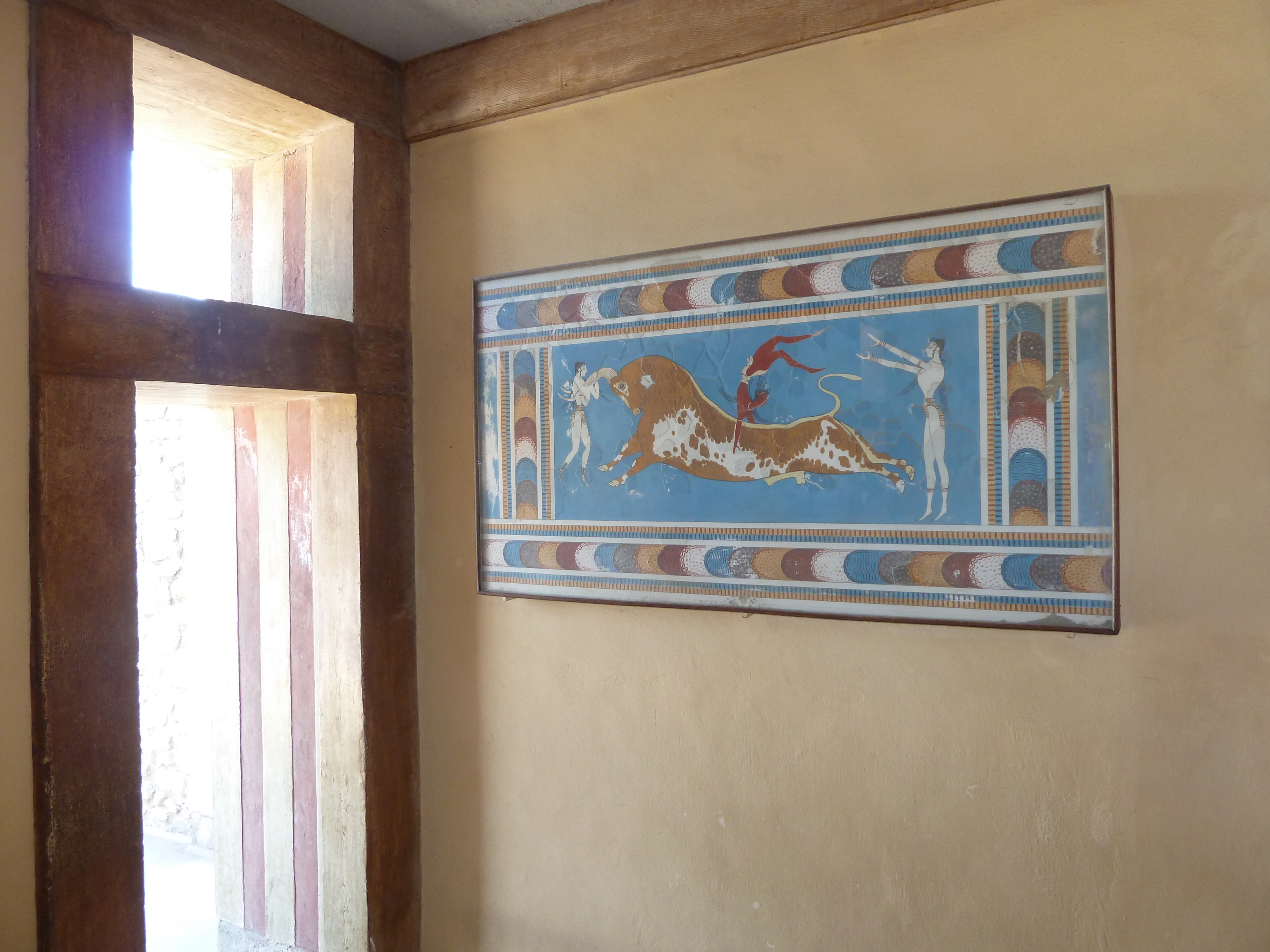 Minoean Pallace, Knossos, Crete, Greece